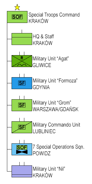 Structure of the Polish Special Troops Command